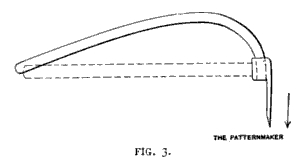 19th century knowledge carpentry and woodworking japanese adze